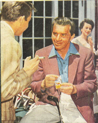 Julius Boros and other sports stars from the 1940's smoking Camel cigarettes campaign.